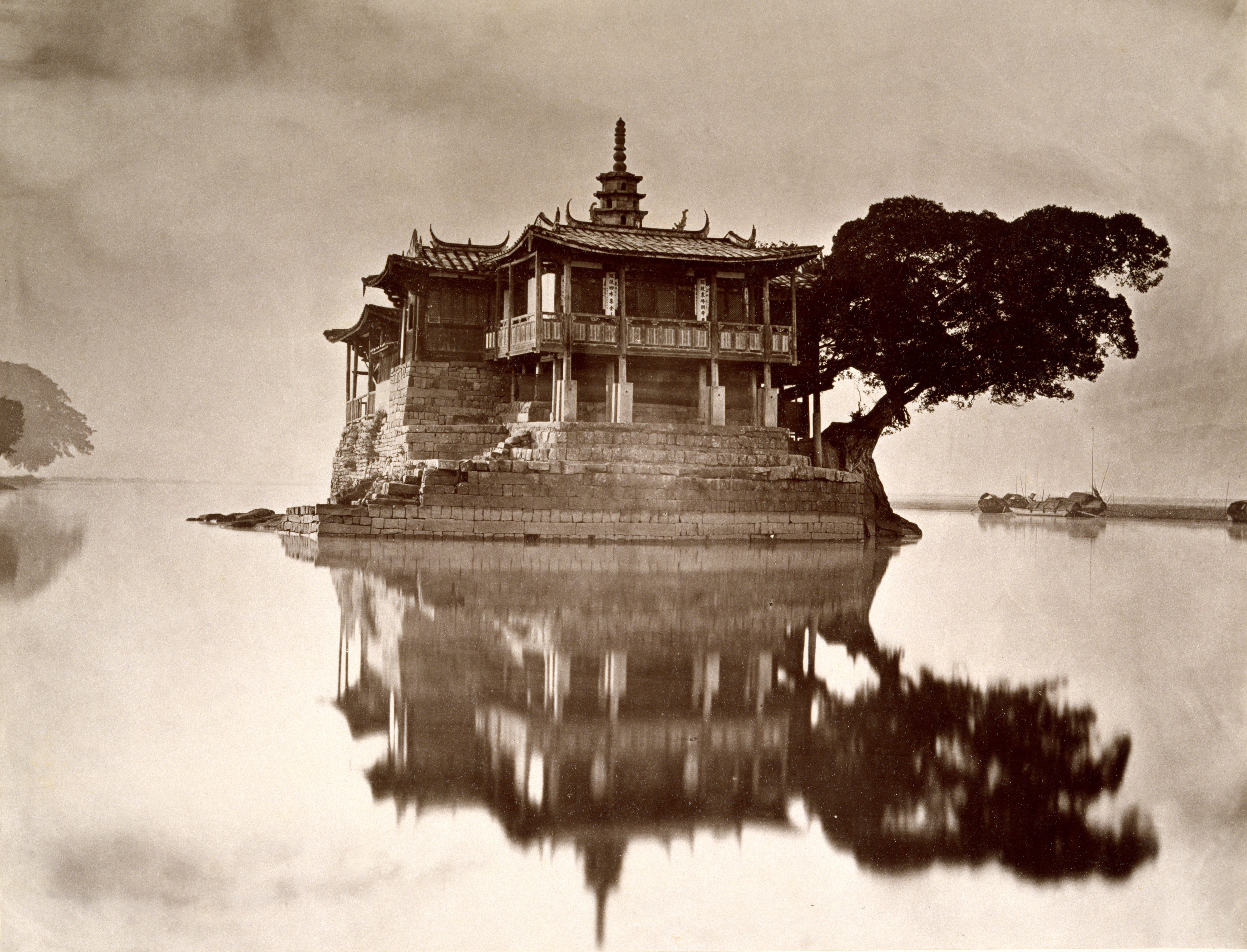 John Thomson (British, 1837-1921) Island Pagoda, about 1871, from the album, Foochow and the River Min Published in London, 1873 Carbon print Gift of the Estate of Mrs. Anthony Rives, 1973. PH26.19 Peabody Essex Museum Today known as Jinshan Temple (金山寺)